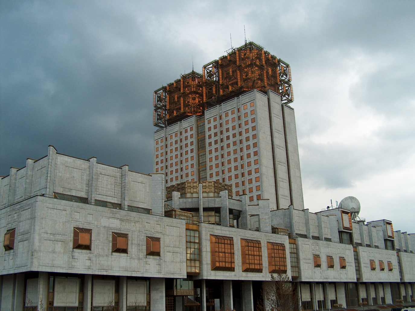 The Golden Brain (the Praesidium of the Russian Academy of Sciences)